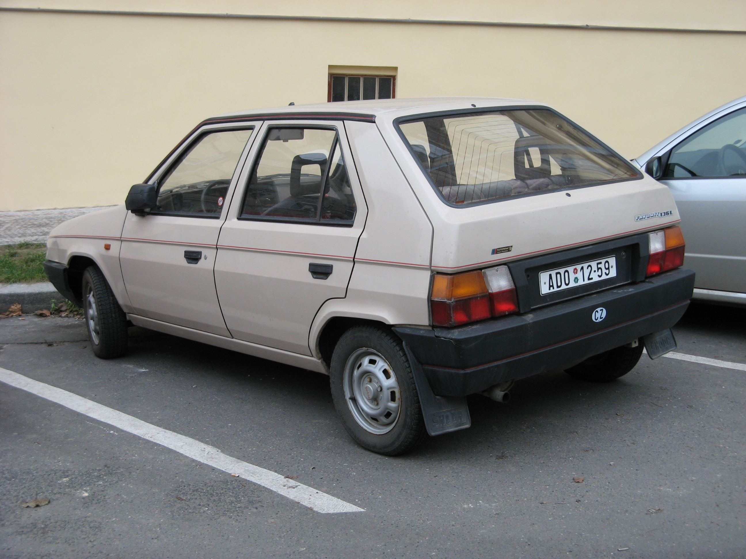 Škoda Favorit 136 L